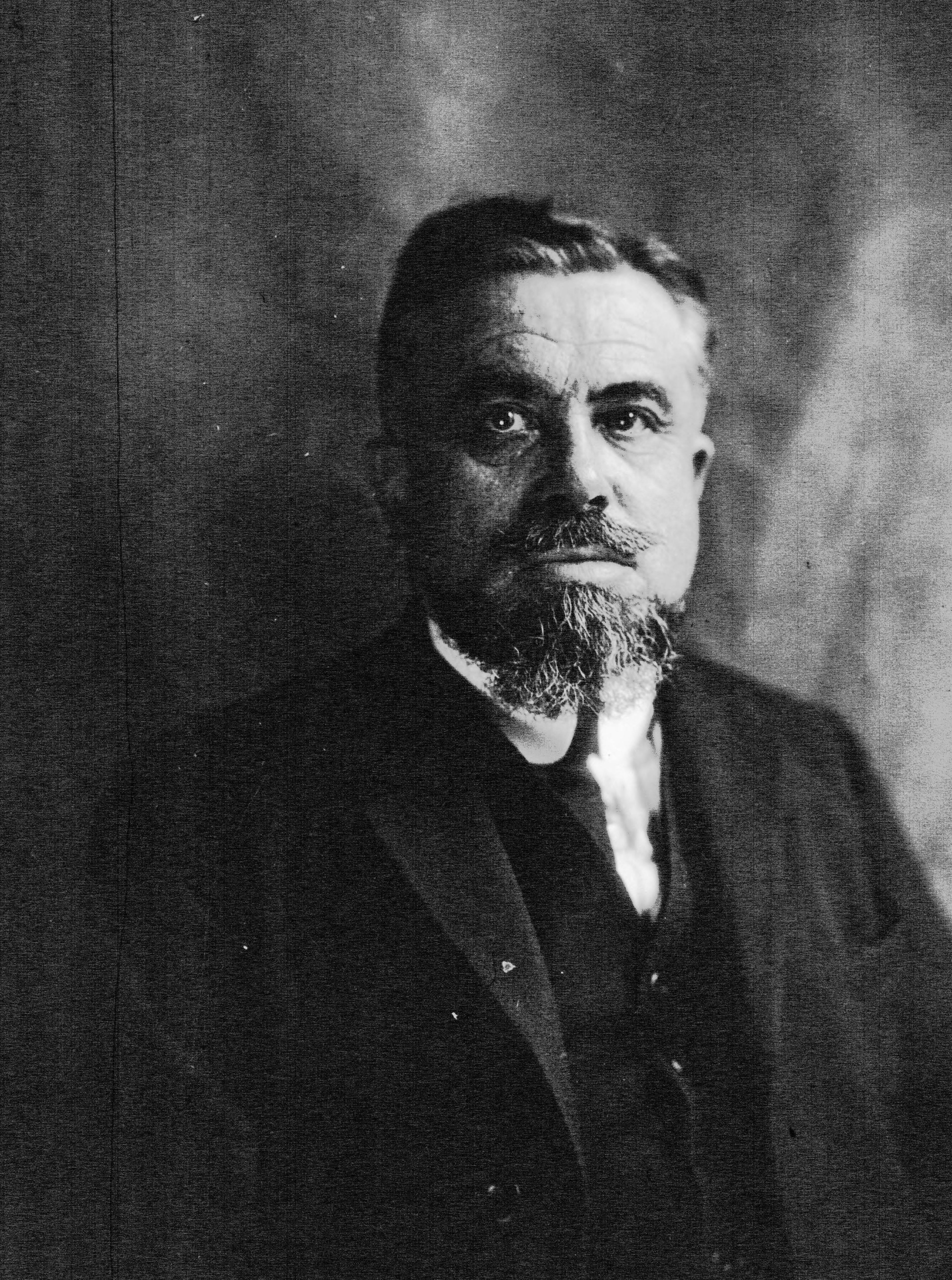 Portrait of the Occitan politician Joan Baptista Amat